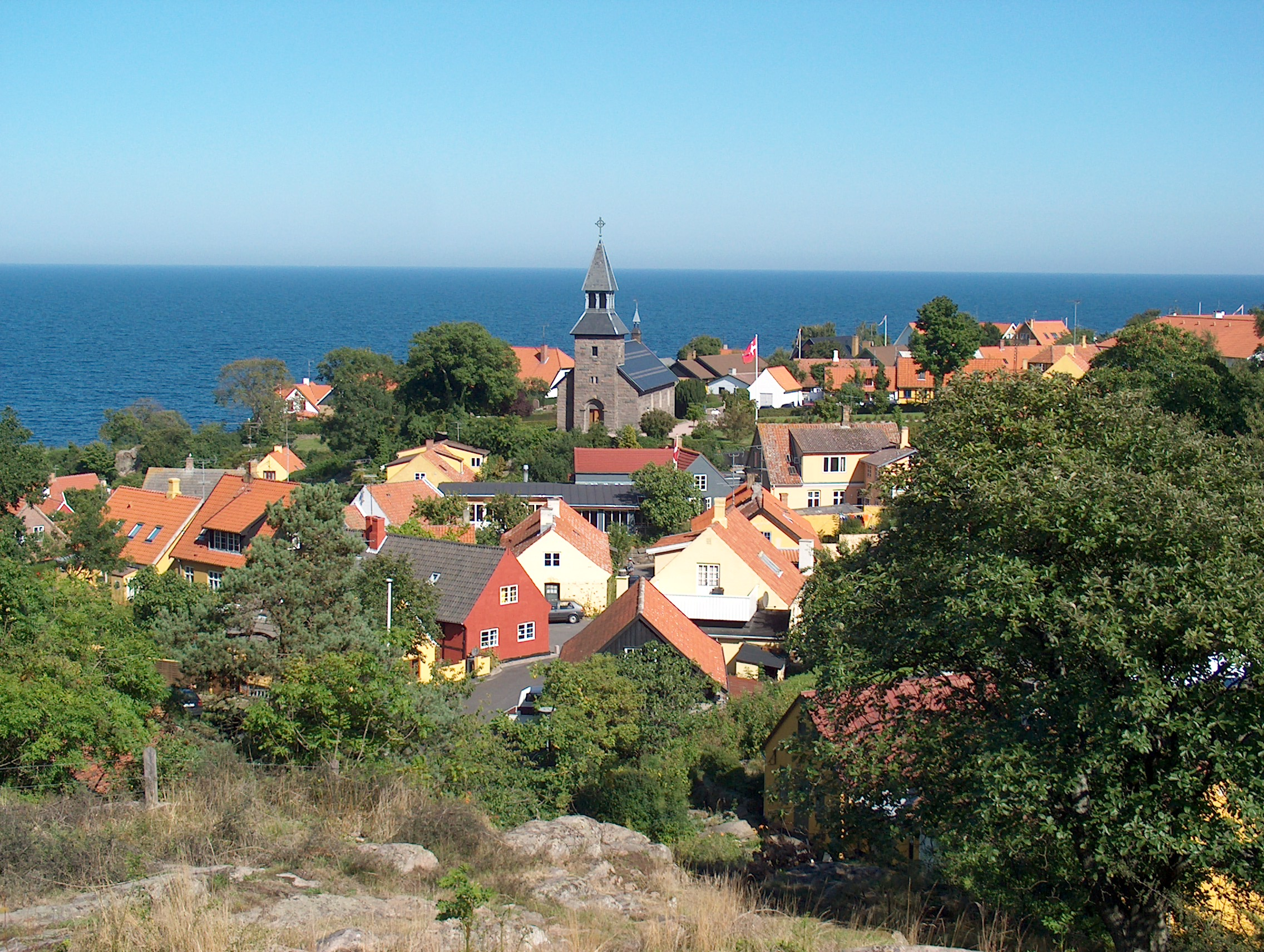 View over the city Gudhjem on the Danish island Bornholm.